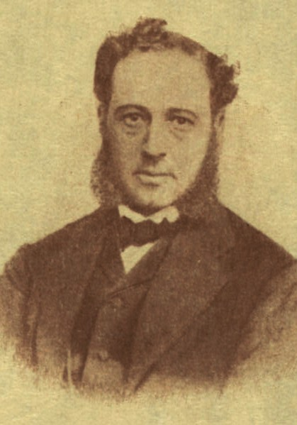 Henry Harrisse's portrait